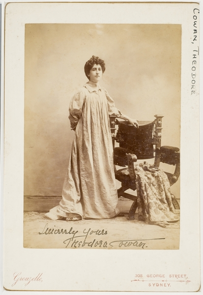 Studio photograph of Theo Cowan (1868–1949) in a sculptor's smock c.1898 Inscribed "Sincerely yours Theodora Cowan" at bottom. Note: Theodora Cowan was an Australian sculptor, painter and writer.